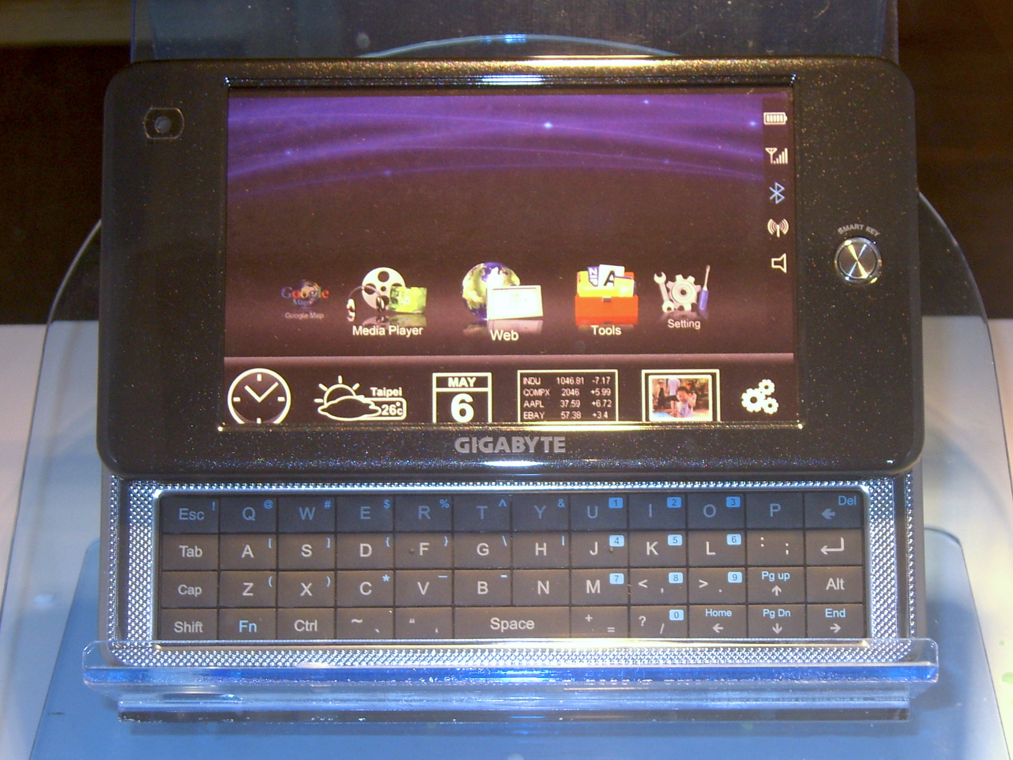 2008 COMPUTEX Best Choice Award: Gigabyte MID M528.